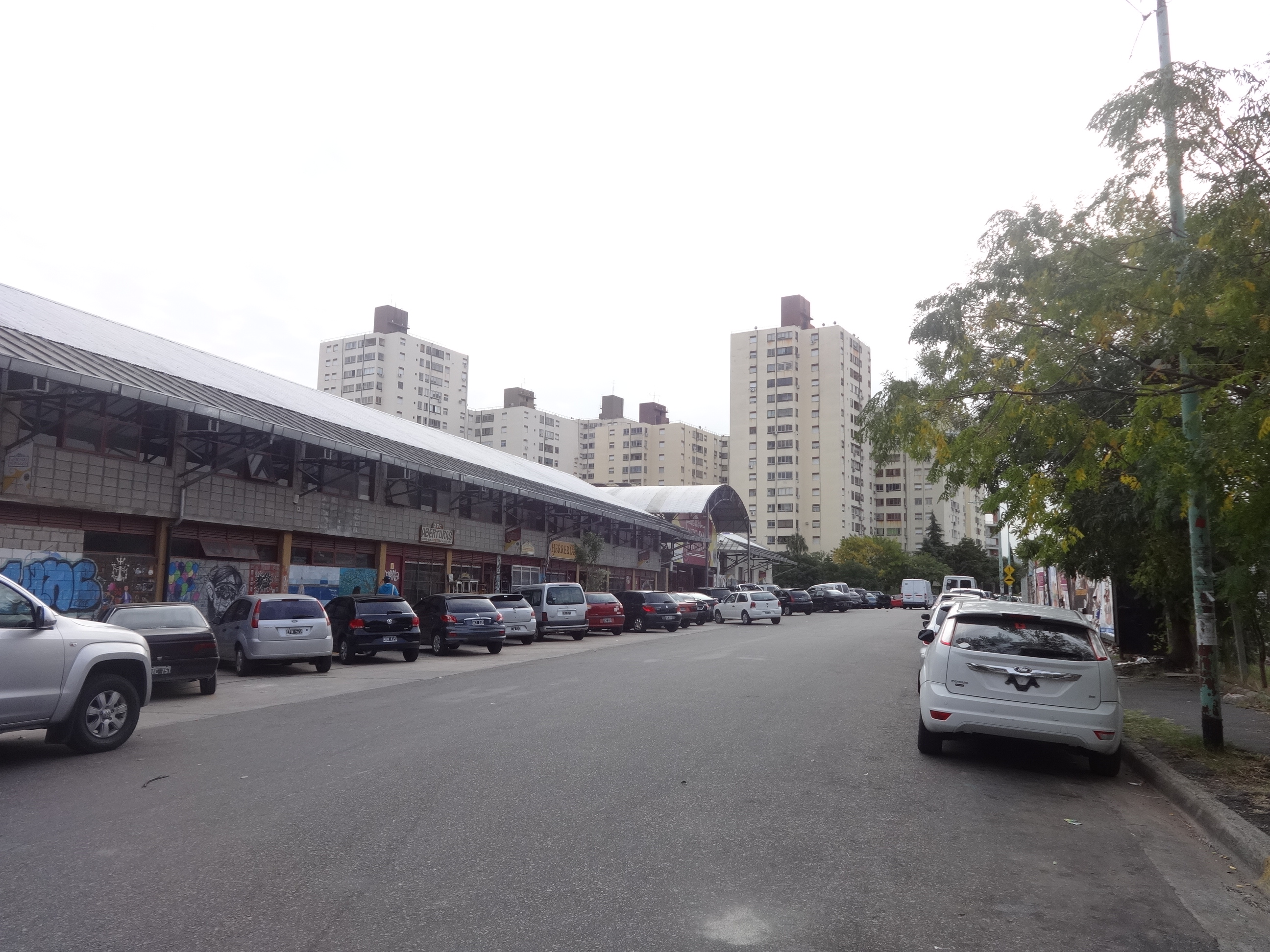 The Buenos Aires Flea Market, in the Colegiales section of the city. The Colegiales Urban Complex (1986) is visible behind it.